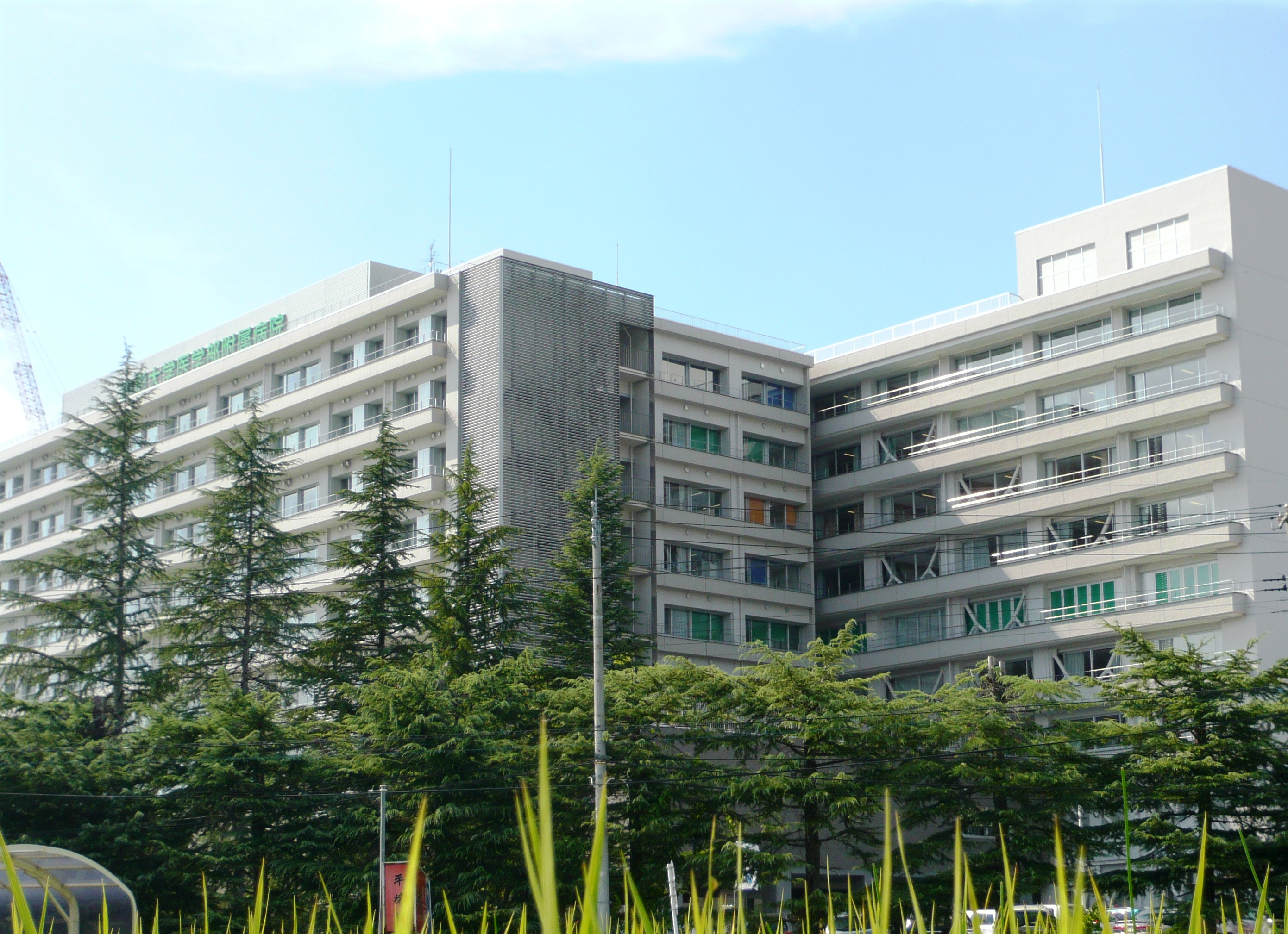 Yamagata University Hospital, JAPAN